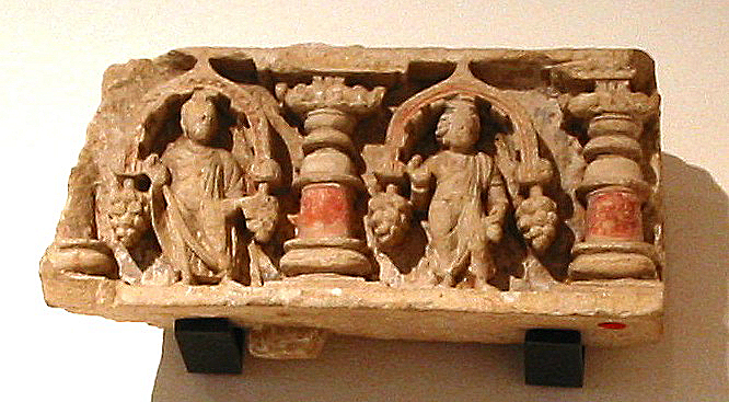 Decorative element from Stupa C1, Hadda.